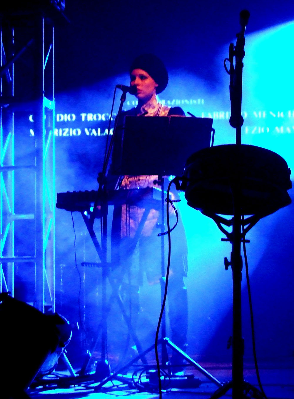 Laibach performing in Celje, Old Castle